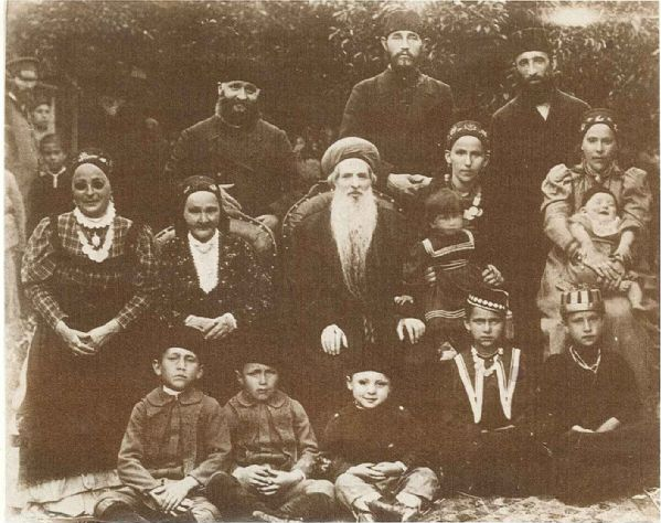 Rabbi Chaim Hezekiah Medini, family portrait while rabbi of the Krymchaks community